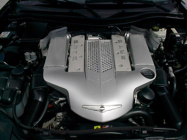 Chrysler Crossfire 2005 SRT-6 with Mercedes-AMG C32 Engine